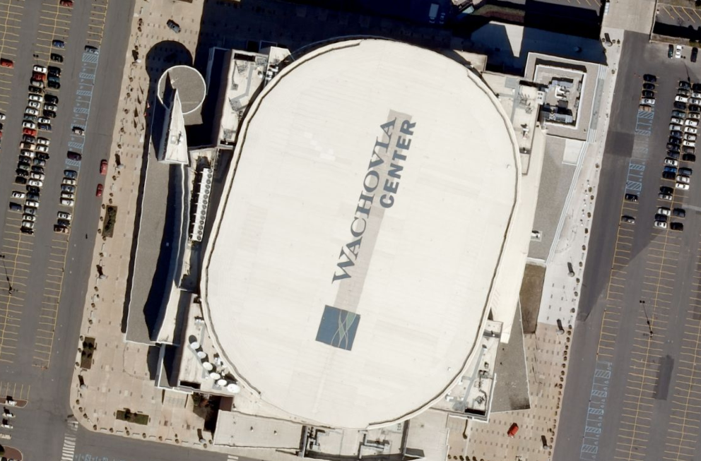 Wachovia Center satellite view, nasa world wind